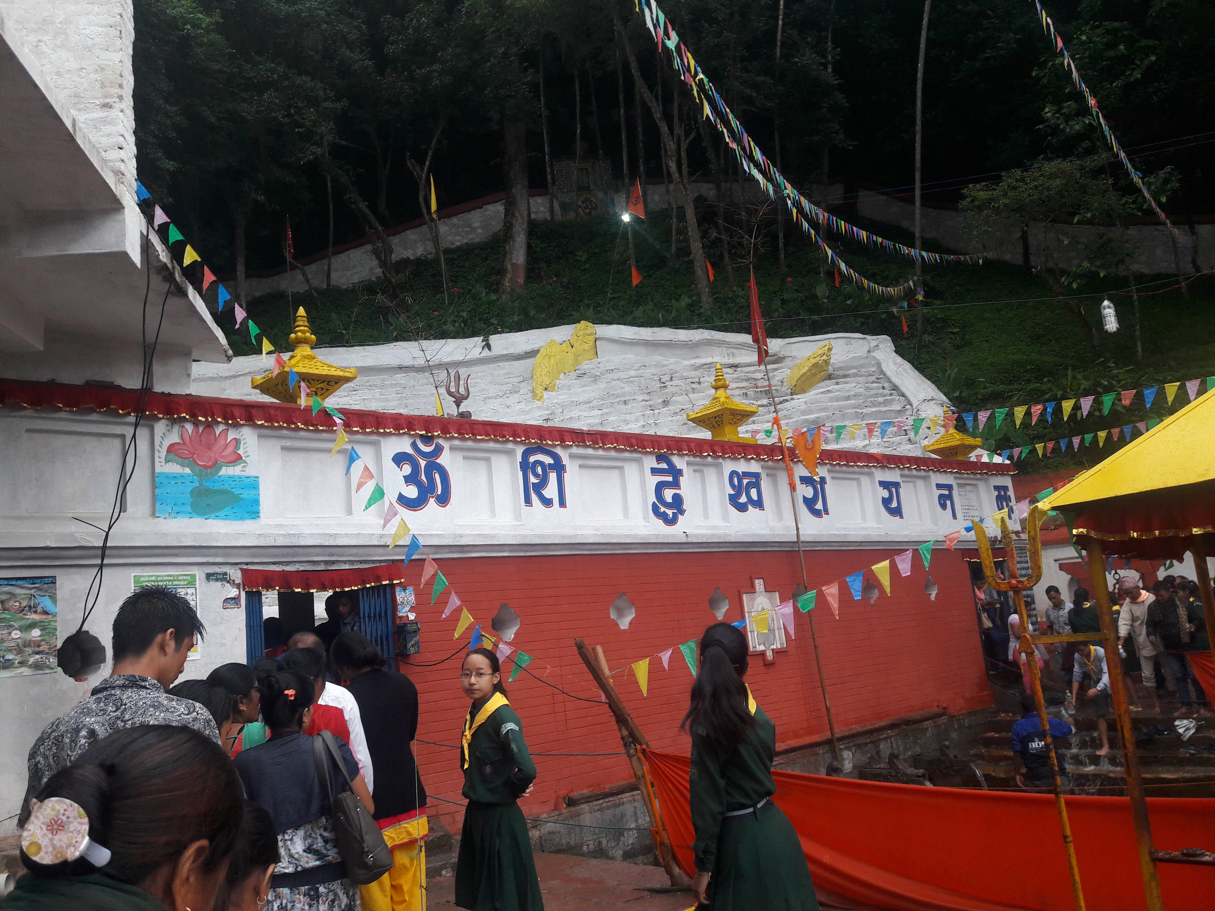 Godawari Mela, Nepal